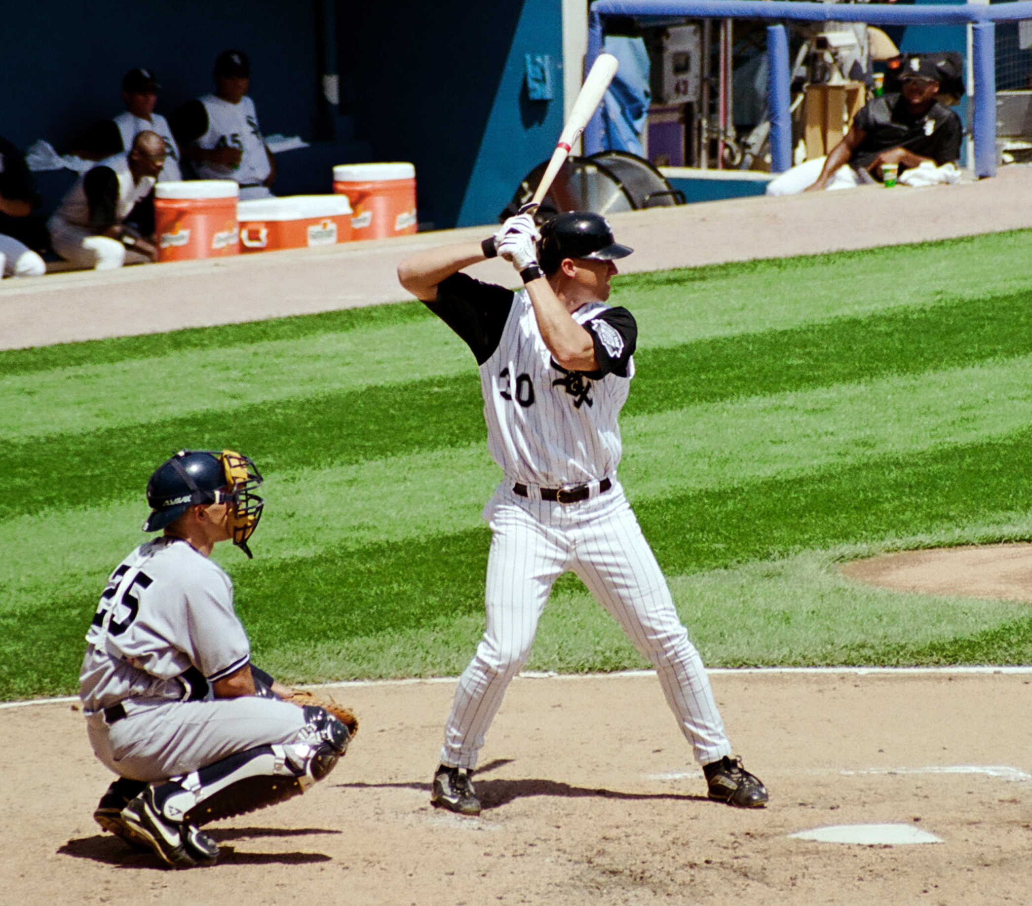 Magglio Ordóñez bats for the Chicago White Sox, 1999.